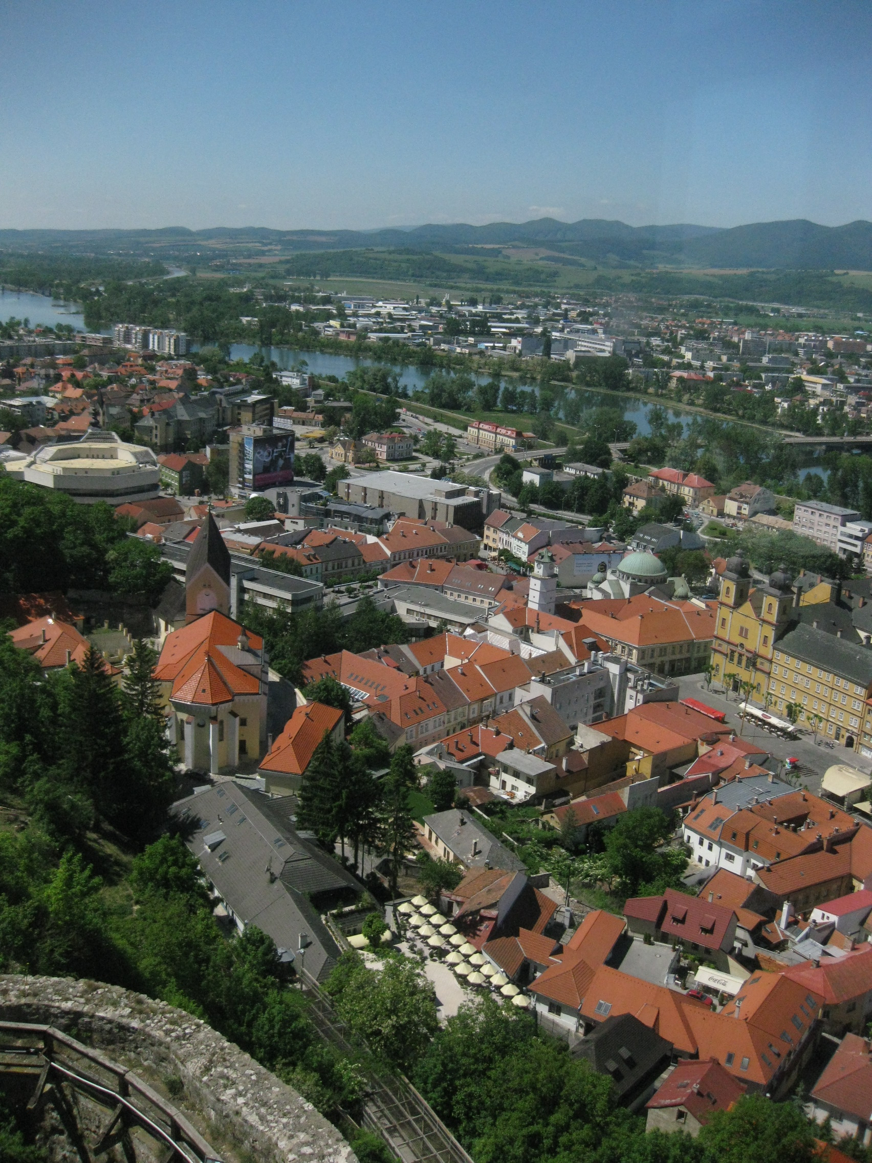 Skyline of Trenčín from Trenčín castle tower. Historical centre, Váh river and Zámostie - north western portion of the town, on the right bank of the river.